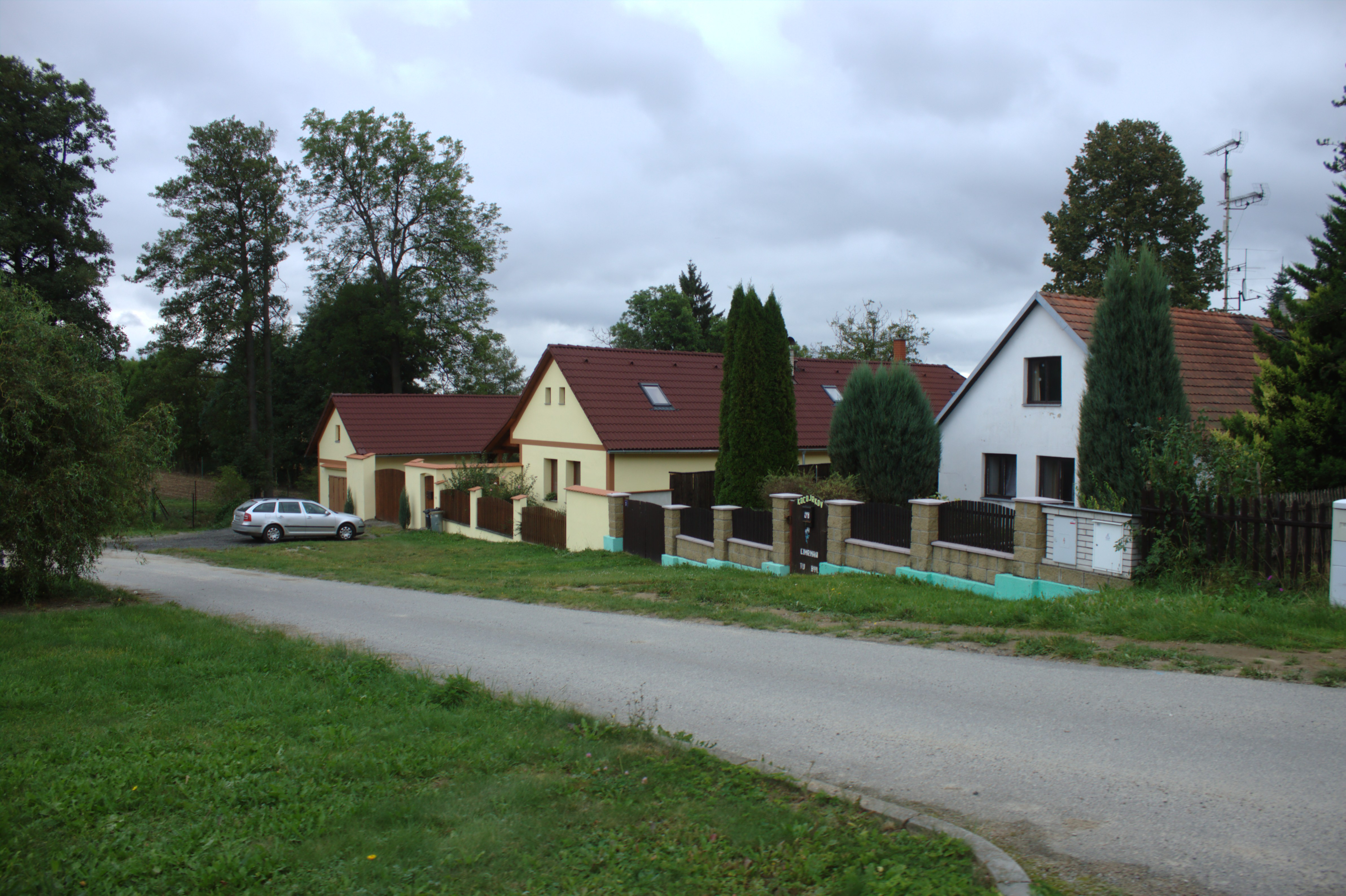 Buildings in Nový Smrdov, Vysočina Region, CZ